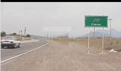 مسیر راوند به چنار